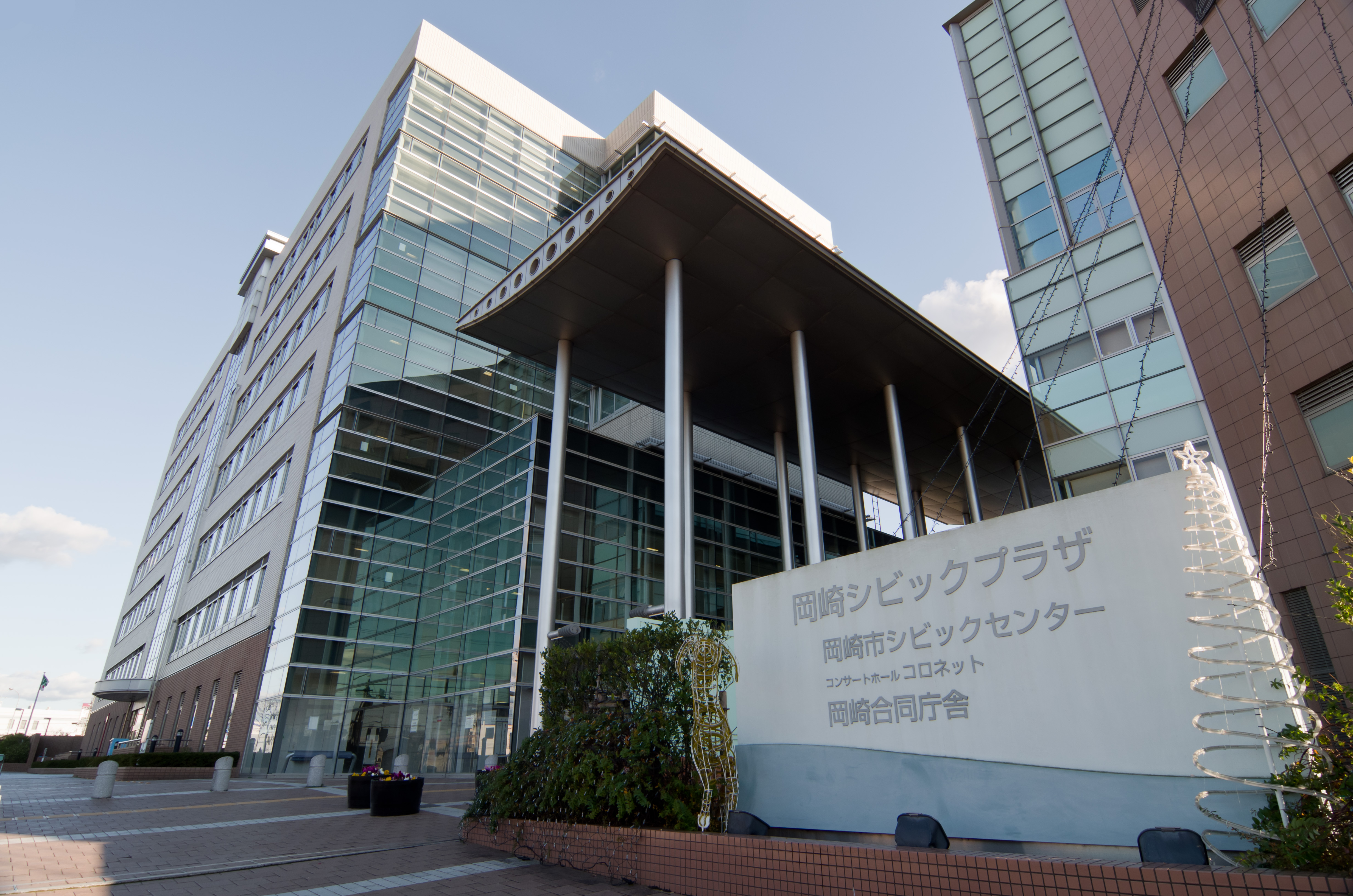 Okazaki joint government building(left) and Okazaki City Civic Center